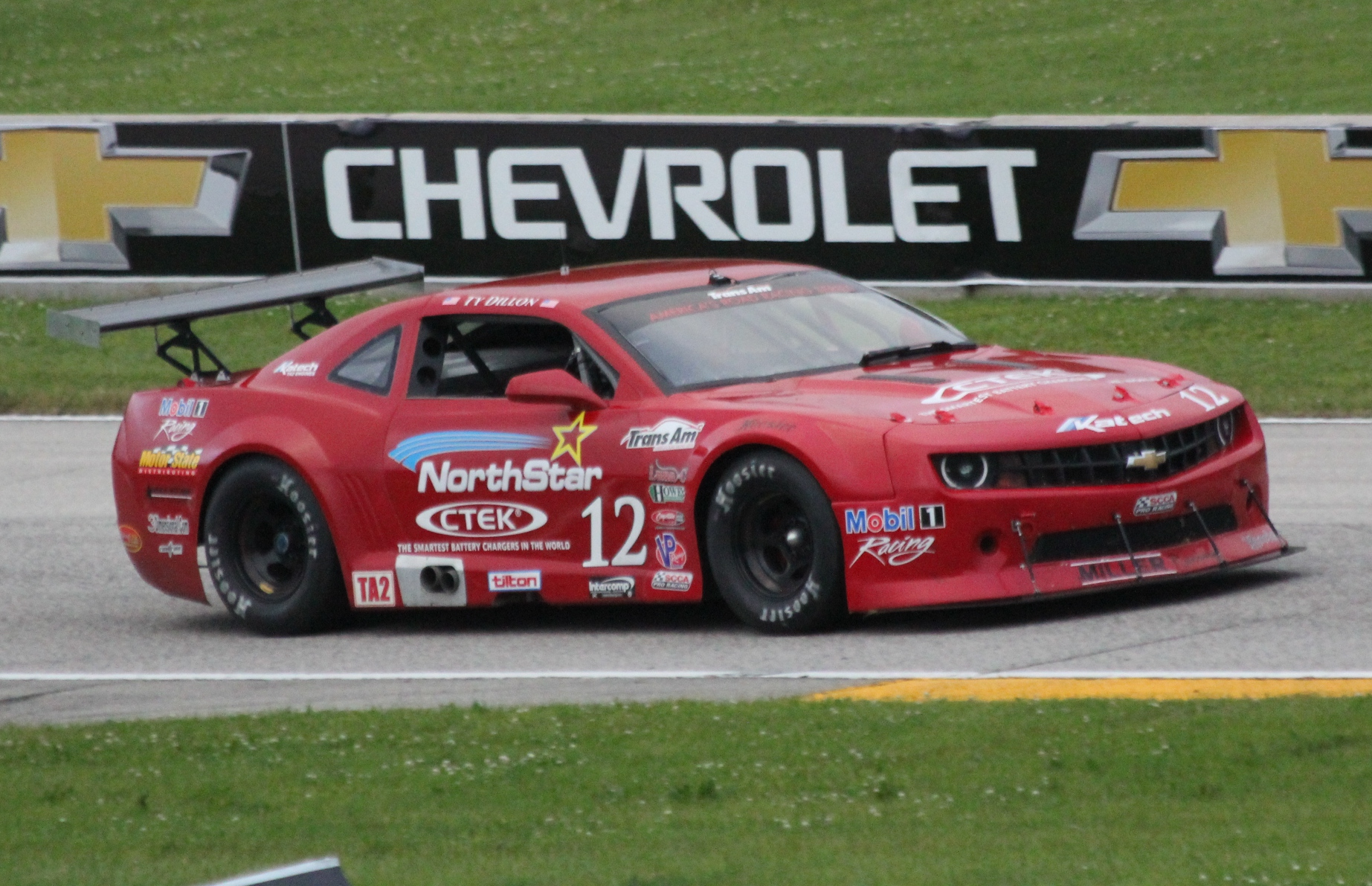 NASCAR driver Ty Dillon in his first SCCA Trans-Am Race at Road America.